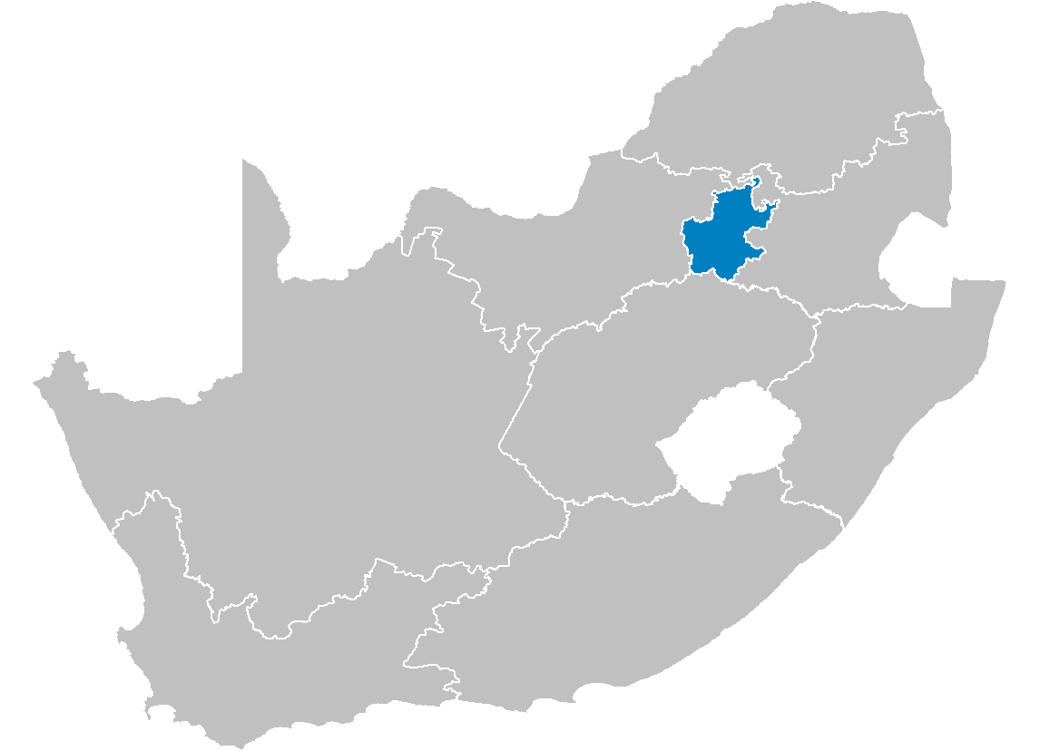 Map of South Africa showing the Gauteng province after the 12th amendment of the constitution in December 2005.